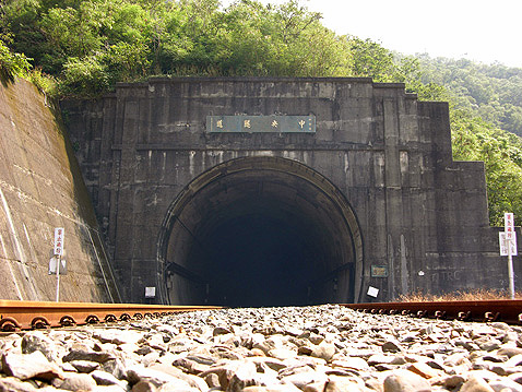 File:Wast portal of the Central Tunnel retouched.jpg